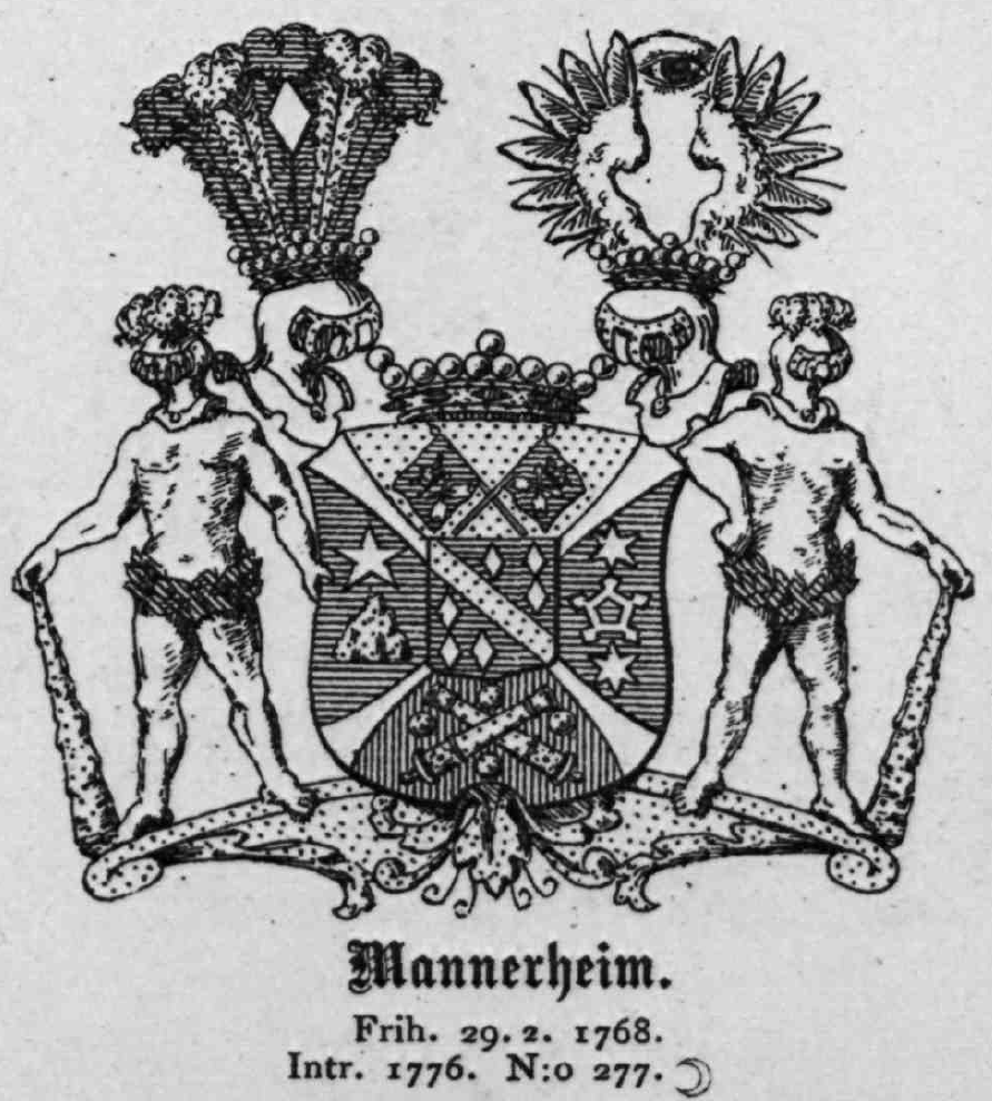 Mannarheim family arms (barons)